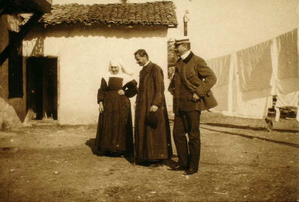 A monastery in Skopje. The Austro-Hungarian consul Bohumil Para. 1903.